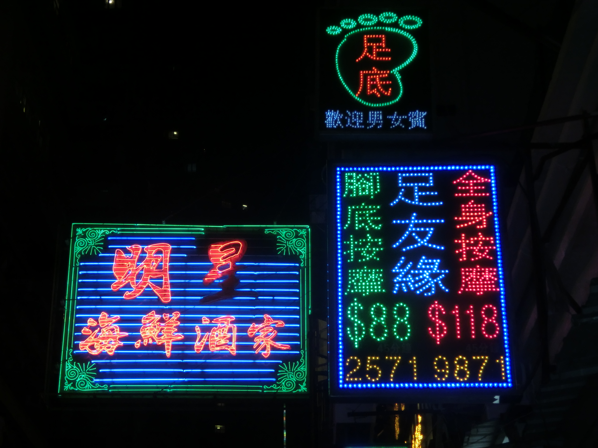 明星海鮮酒家, Star Seafood Restaurant, 長康街, Cheung Hong Street, 北角 英皇道 294-296號, King's Road, North Point, Hong Kong